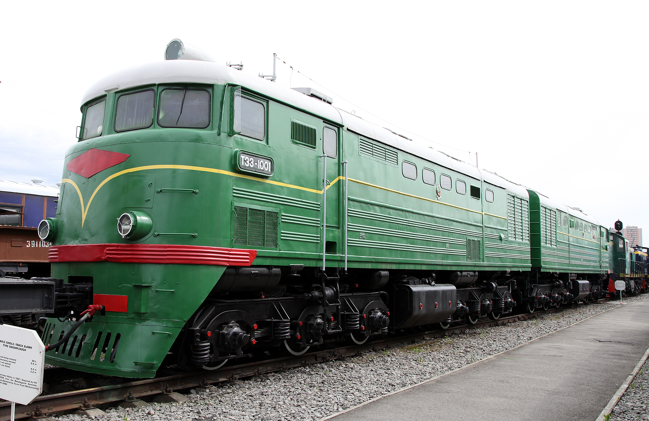 TE3-1001 diesel locomotive